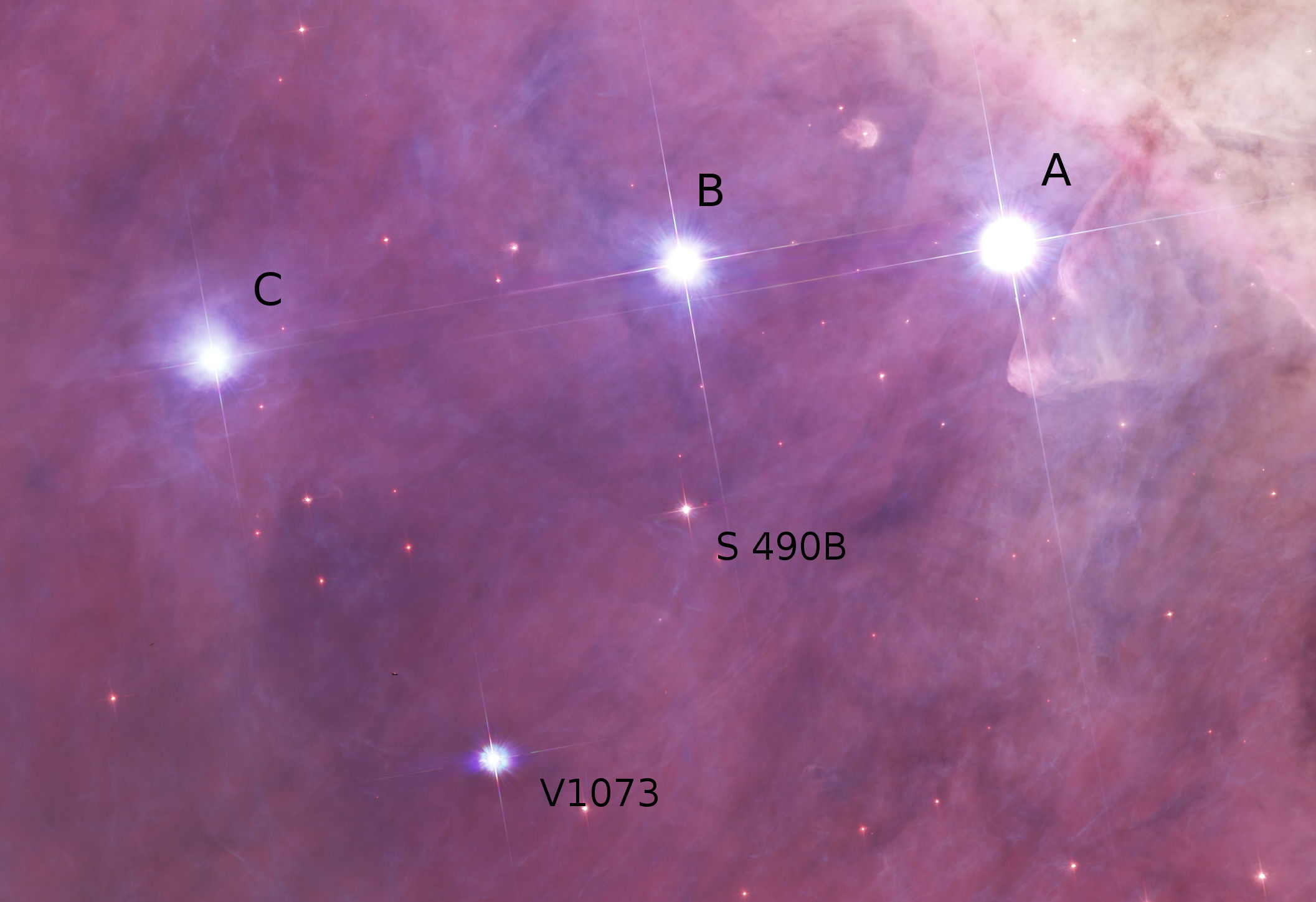 Theta2 Orionis